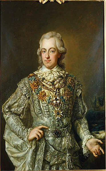 Prins Fredrik Adolf, avporträtterad i furstlig dräkt såsom han såg ut vid sin brors, Gustaf III:s, kröning 1772. Konstnären okänd.